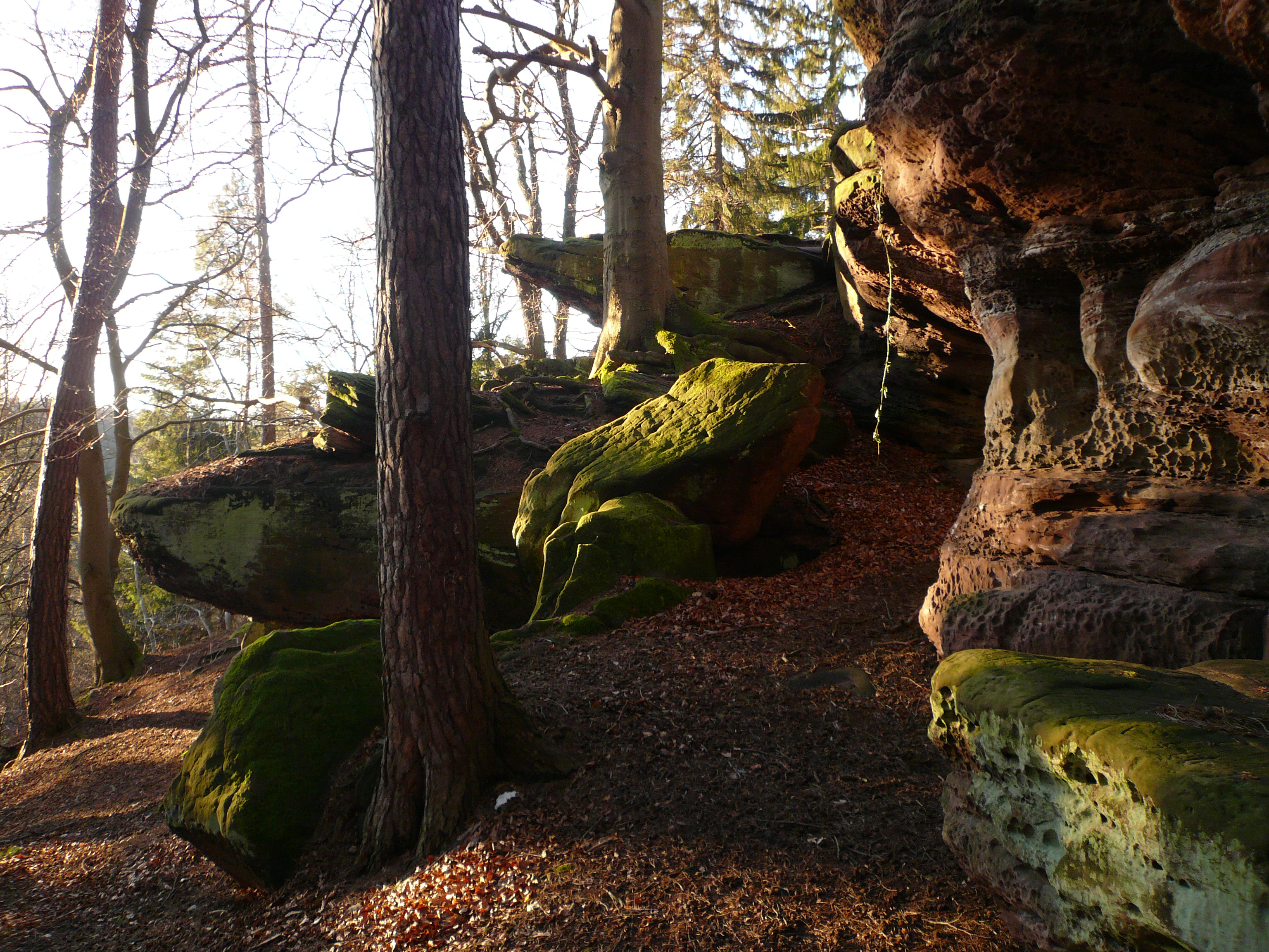 Sandstone rocks in Gleichen, Lower Saxony, Germany